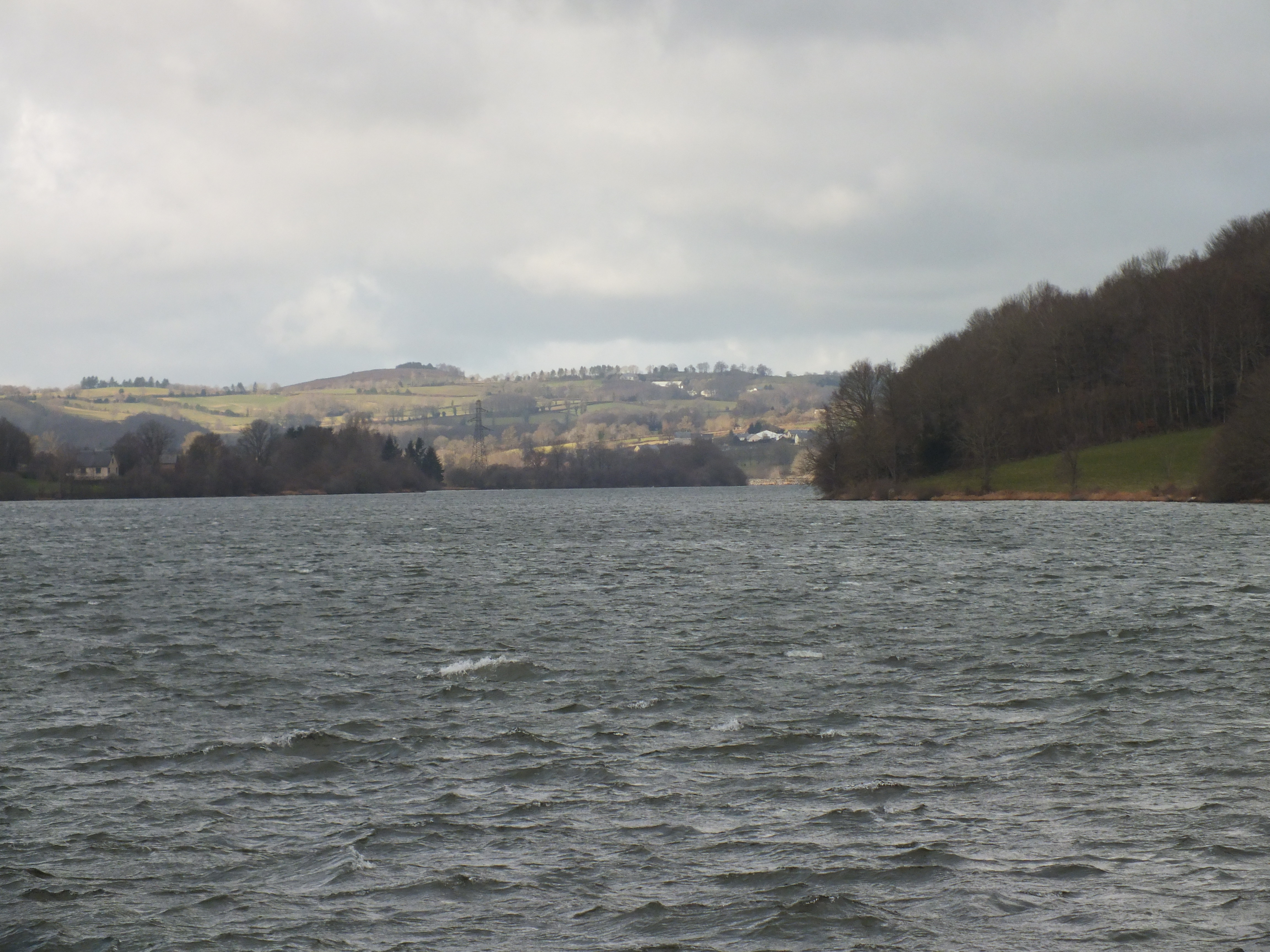 The Barrage de Villefranche-de-Panat at Villefranche de Panat, Aveyron, France was built between 1949 and 1952 on the Alrance (river). Waters from here pass to the balancing reservior at the Lac de Saint Amans, and through to Le Pouget (power station). Looking towards Alrance (commune)